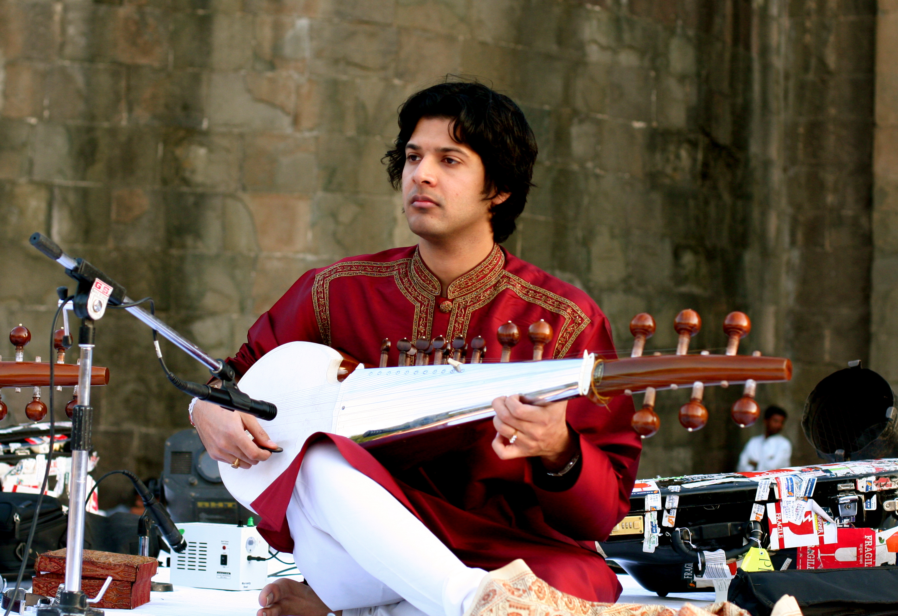 Ayaan Ali Khan at the Pune Festival 2007